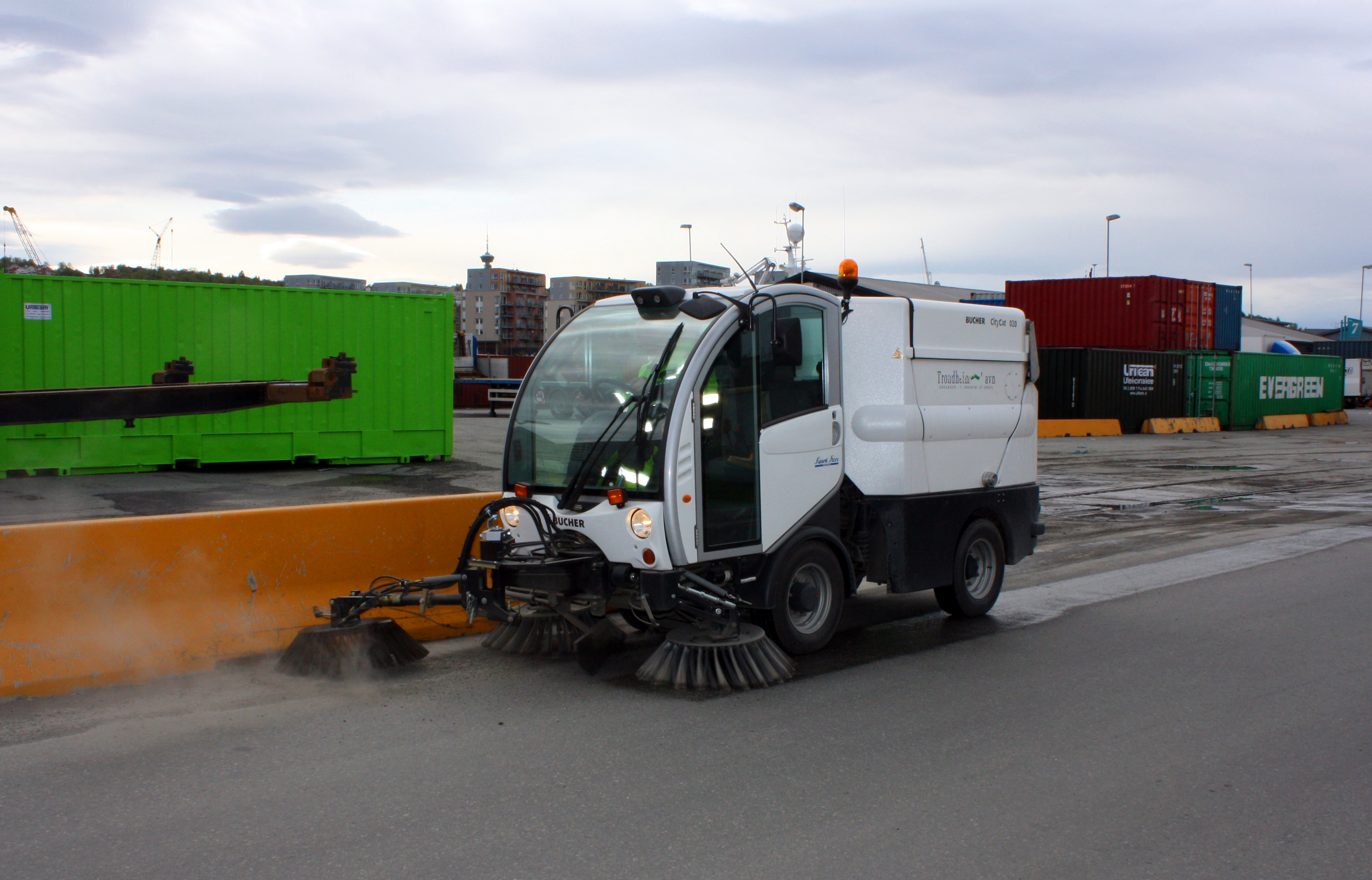 Trondheimsfjorden Interkommunale Havn (Trondheim Port)'s street sweeper at Pir II at Brattøra.